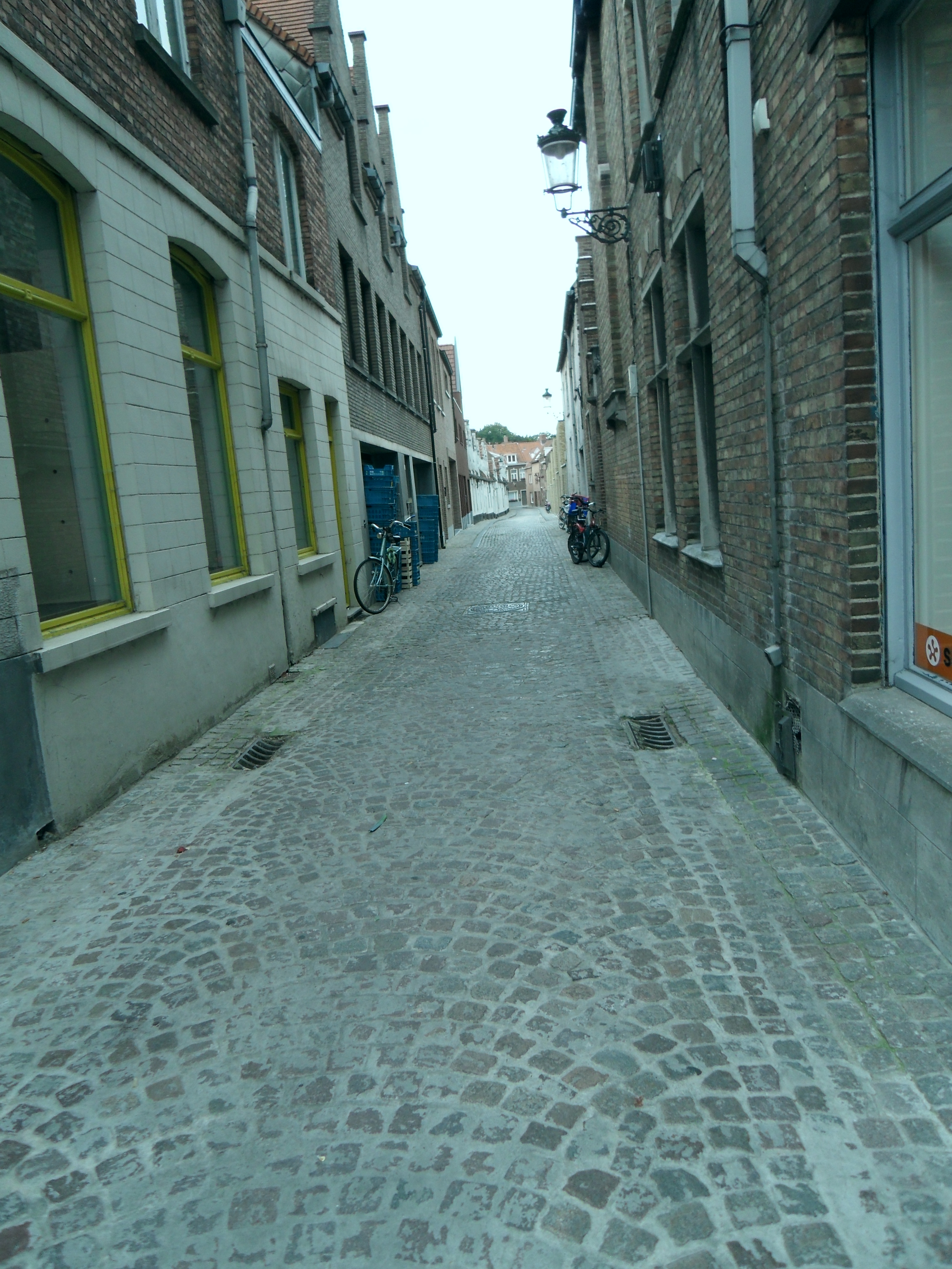 De Kammakersstraat in Brugge